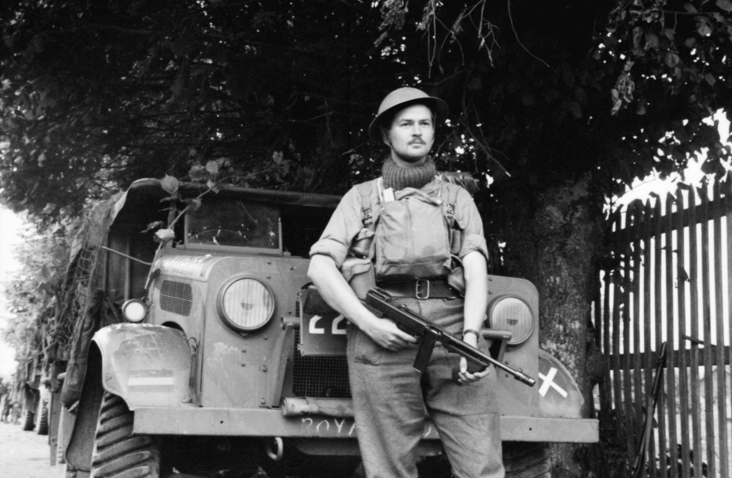 The British Army in France 1940 A soldier of the 52nd Lowland Division poses with his Thompson sub-machine gun and a Bedford MWD truck in France, 13 June 1940.